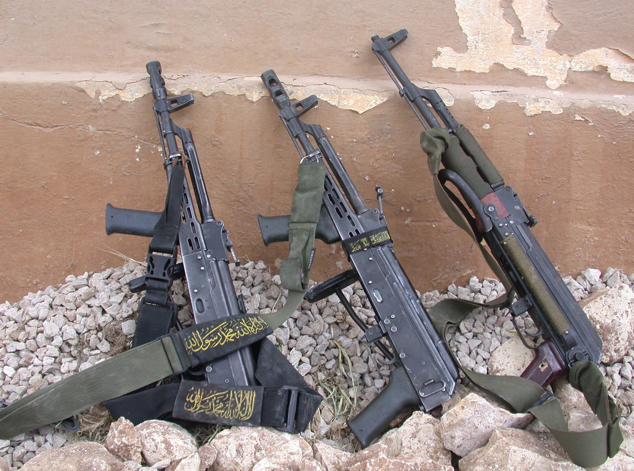 05/17/2006 During a joint IDF and Israeli Police operation to curb terror activity in the city of Nablus, an exchange of fire broke out between Israeli forces and armed militants in which two Islamic Jihad operatives were killed, one was moderately injured, and another was arrested. After combing the area, Israeli forces found 3 AK style rifles (2 are amd-65's), seen above, with loaded magazines for each gun. The forces also uncovered an explosive device weighing 25 kg. The Israel Defense Forces Facebook The Israel Defense Forces blog Follow us on Twitter